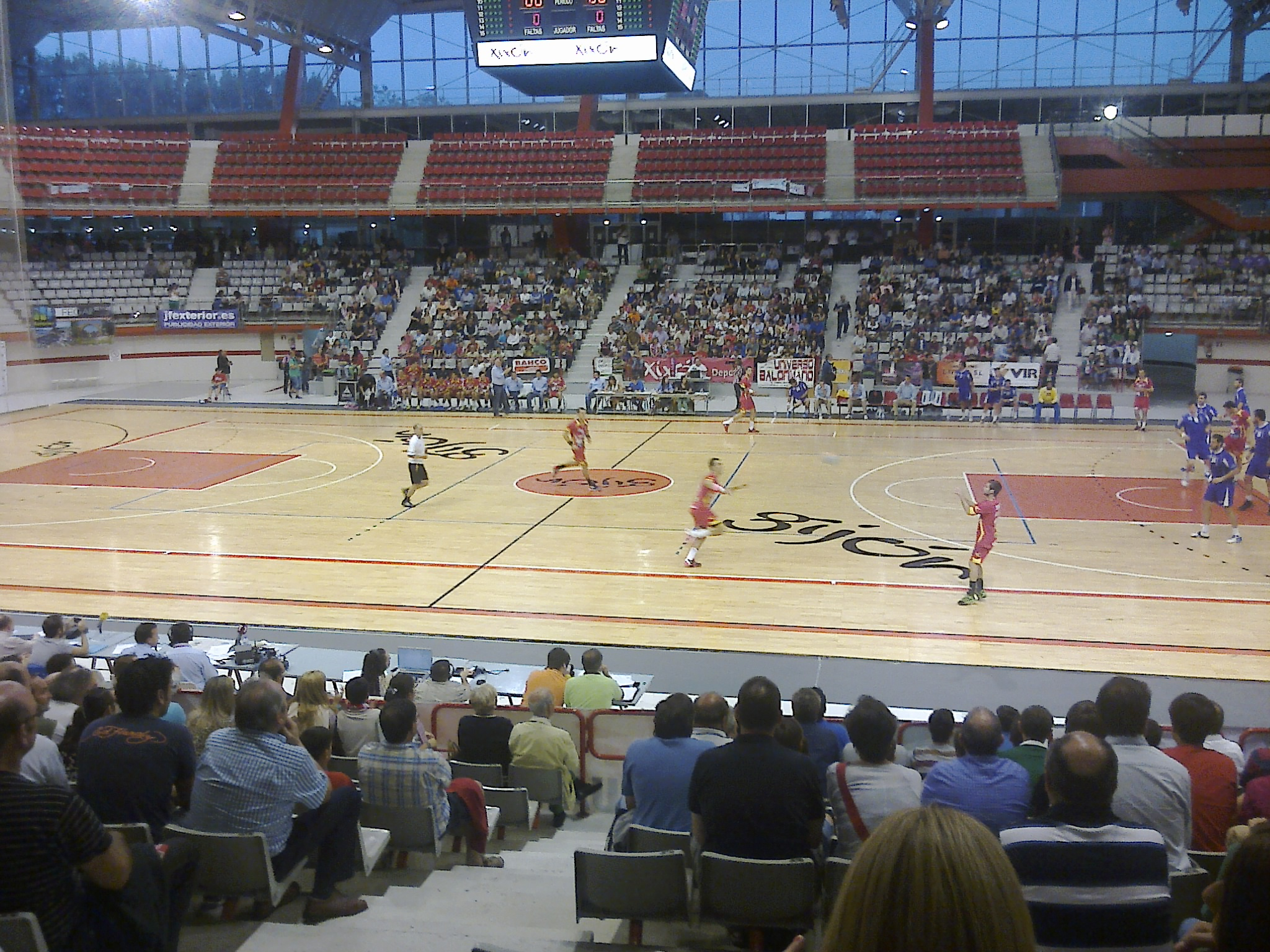 View of the Palacio de Deportes de Gijón, during a handball game